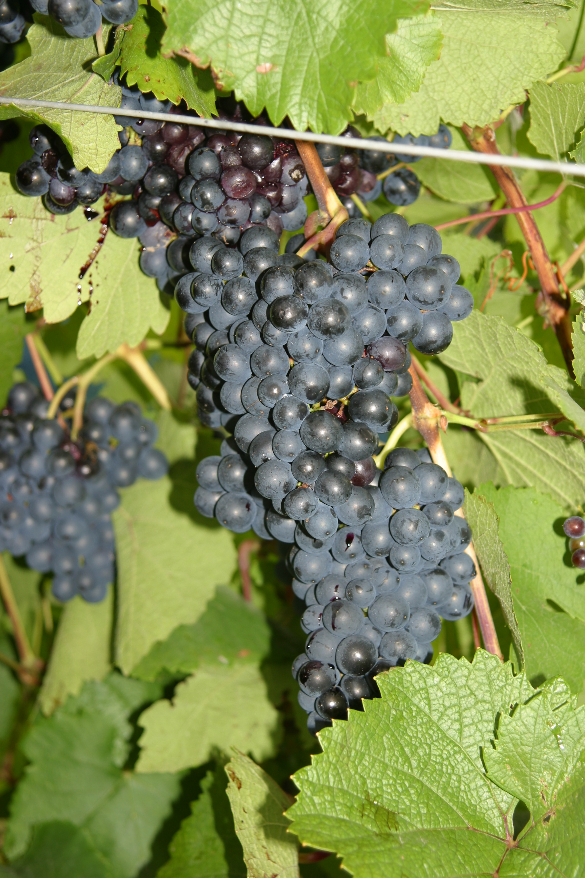 Leafs and grapes of the red grape variety Rondo